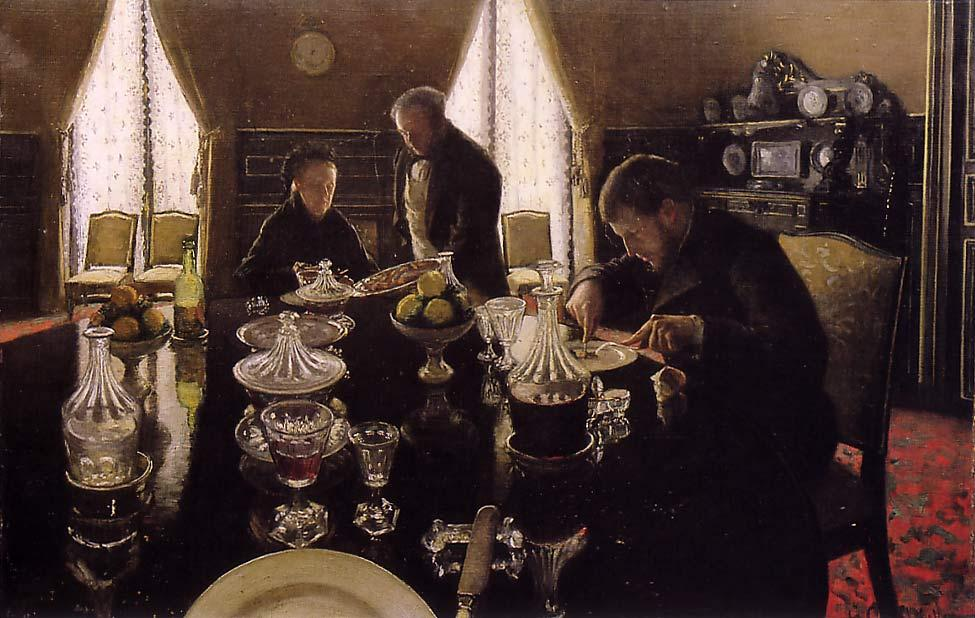 Le déjeuner (1876) Private collection.